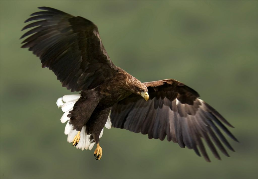 White-tailed Eagle (Haliaeetus albicilla)